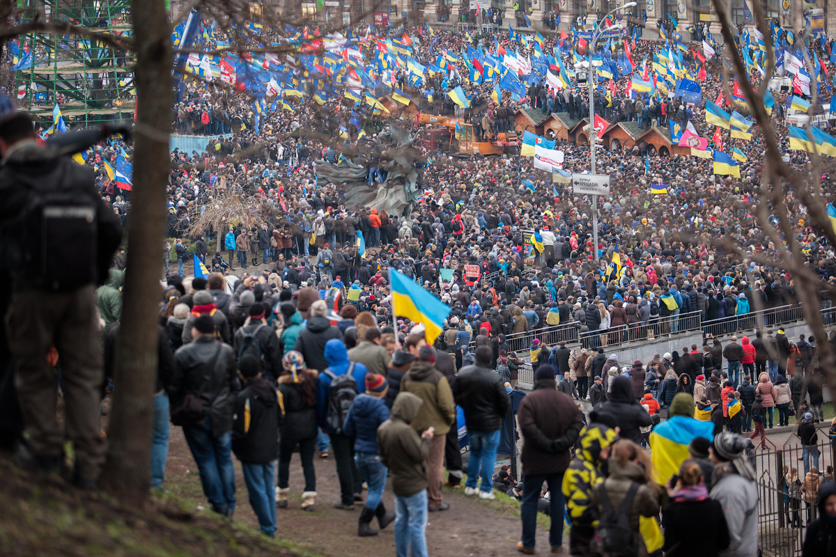 Euromaidan in Kyiv on 1 December 2013 by Nwssa Gnatoush